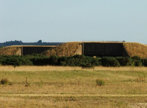 Greenham Common Bunkers. On the South West edge of the Greenham Common airfield you can still see the GAMA Site - Missile silos in which ground launched cruise missiles of the 501st tactical missile unit USAF were stored, 25th January 1989. The GAMA site (GLCM Alert and Maintenance Area) on Greenham Common is the high security area that housed the Cruise Missiles, their transporters and other support vehicles. Six hardened shelters were constructed in the early 1980's to protect the GLCMs from possible nuclear and conventional attack. Each shelter was designed to withstand a thermonuclear airburst explosion above Greenham Common and Newbury or a direct hit from a 500lb conventional bomb. It is believed that the shelters, that stand around 10 metres high, were built with a reinforced concrete ceiling about two metres thick, below a steel plate, around three metres of sand, a further reinforced concrete slab, all covered with tonnes of soil. Each shelter had six bombproof steel doors, three at each end. GAMA remains a very visible reminder of Greenham Common's past and the history of international conflict during the late twentieth century. It is still separated from the rest of Greenham Common by seven high-security fences. The GAMA Site is now owned by 'A' Flying Services. This shot is looking South from the main runway area which has now been returned to common land.